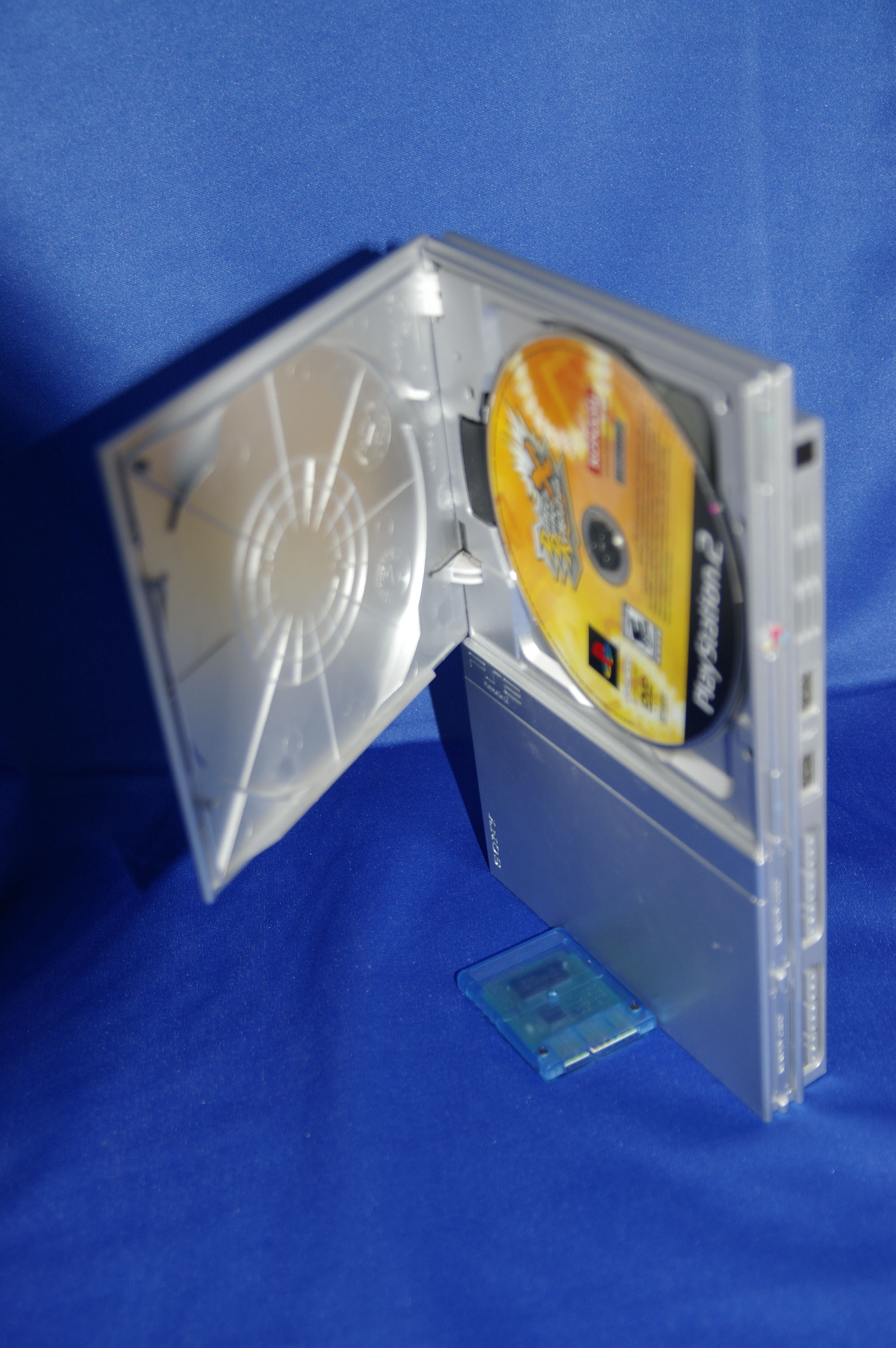 PS2 memory card is pictured because it was used as a prop for vertical support.